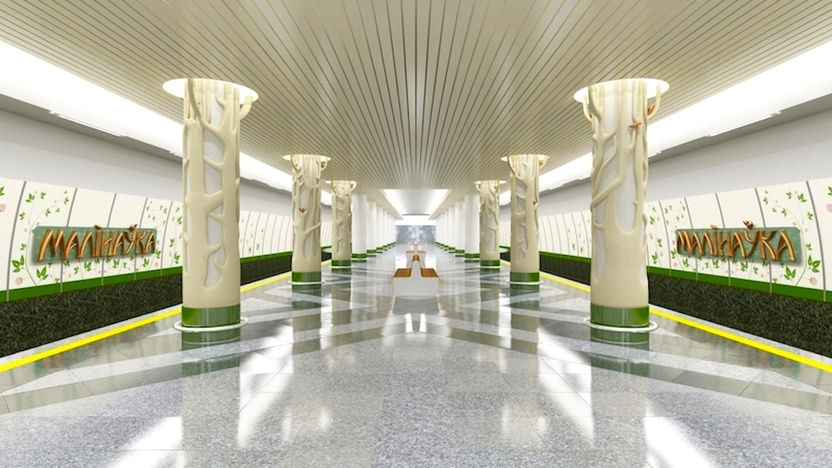 Belarusian sculptor Maxim Piatrul. Art project «Malinaŭka», 2012-2014, h = 380 cm, bronze, copper, silk screen printing, copyright technology. Architect Vladimir Telepnev. Metro station «Malinaŭka» Minsk. Belarus. Nominated for the Special Prize of the President of the Republic of Belarus, Art and Culture in 2014.